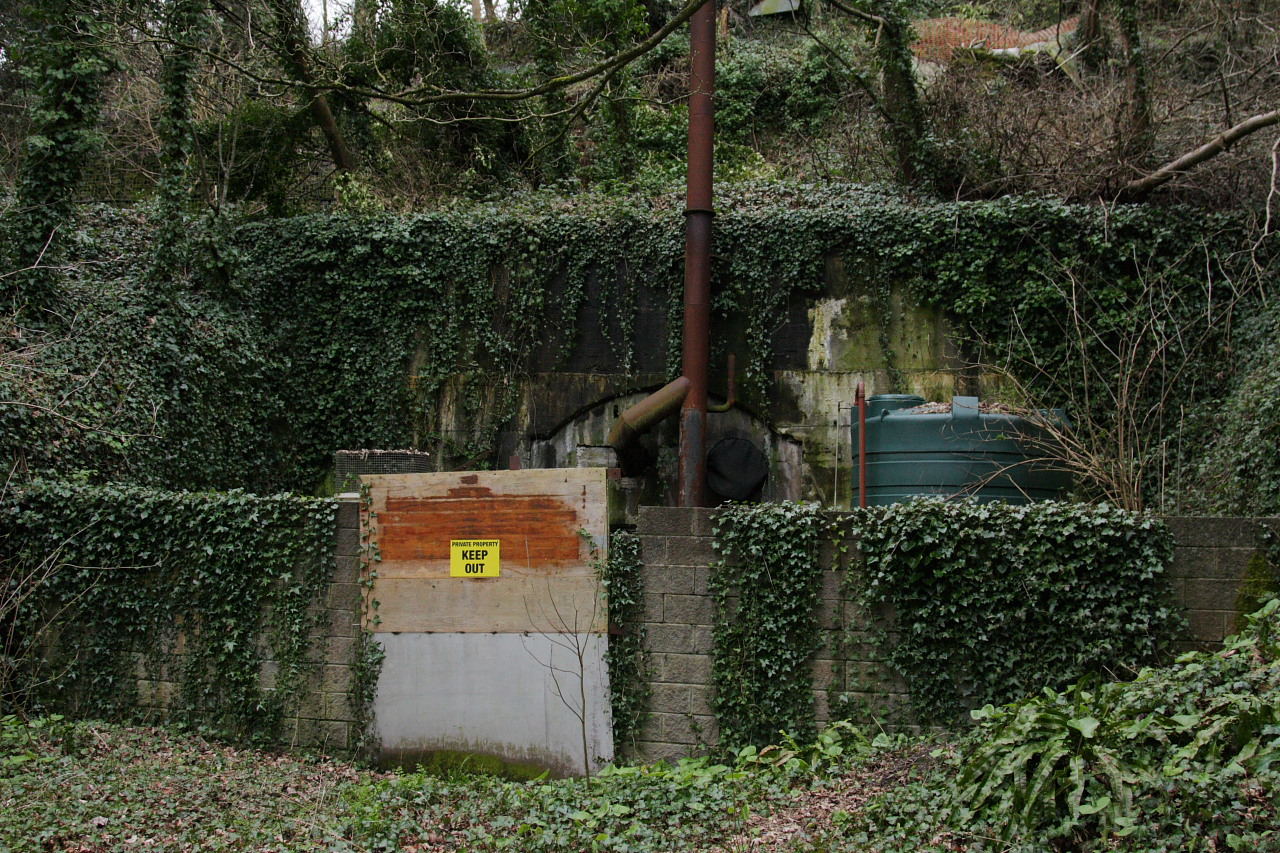 Hohlgangsanlage 1 Munitions Storage Tunnel entrance, in Jersey.